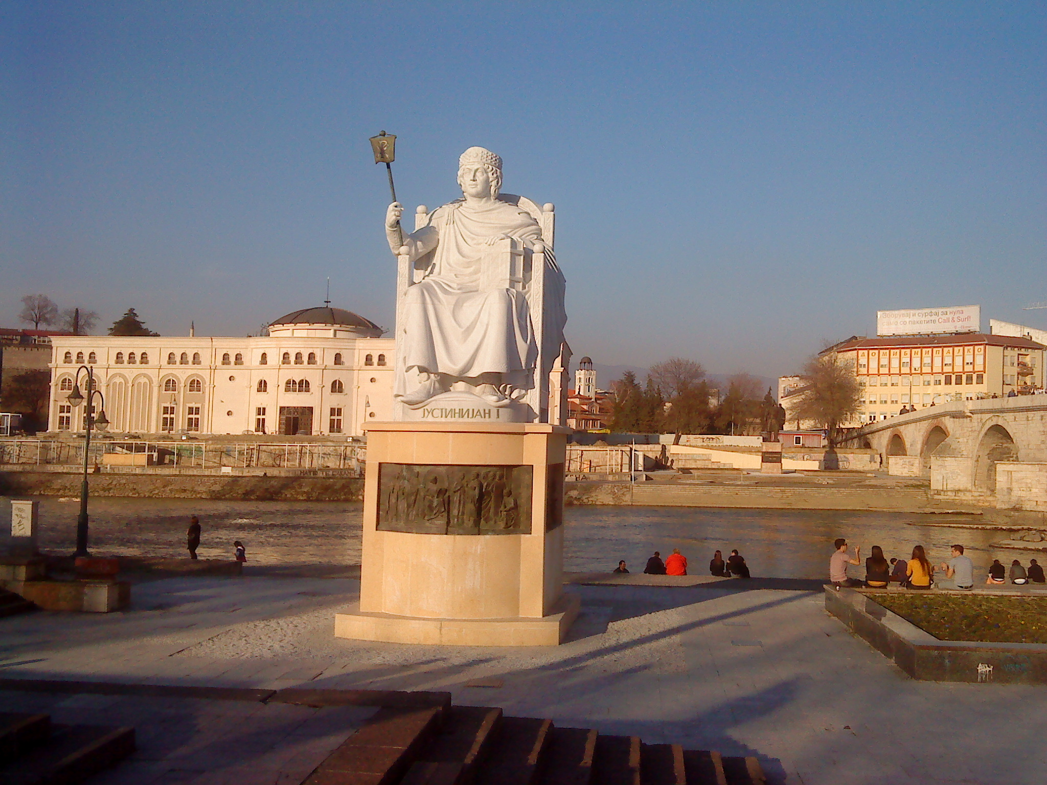 Justinian I. the Great, monument in Skoplje